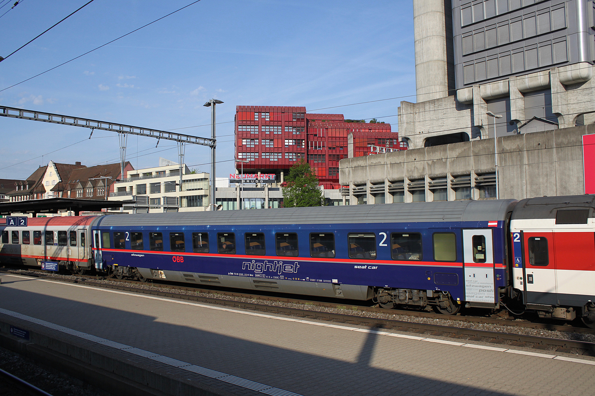 ÖBB Bmz 73 81 21-91 111-4 at Brugg railway station in the consist of NighJet 471 from Berlin Ostbahnhof to Zürich HB.